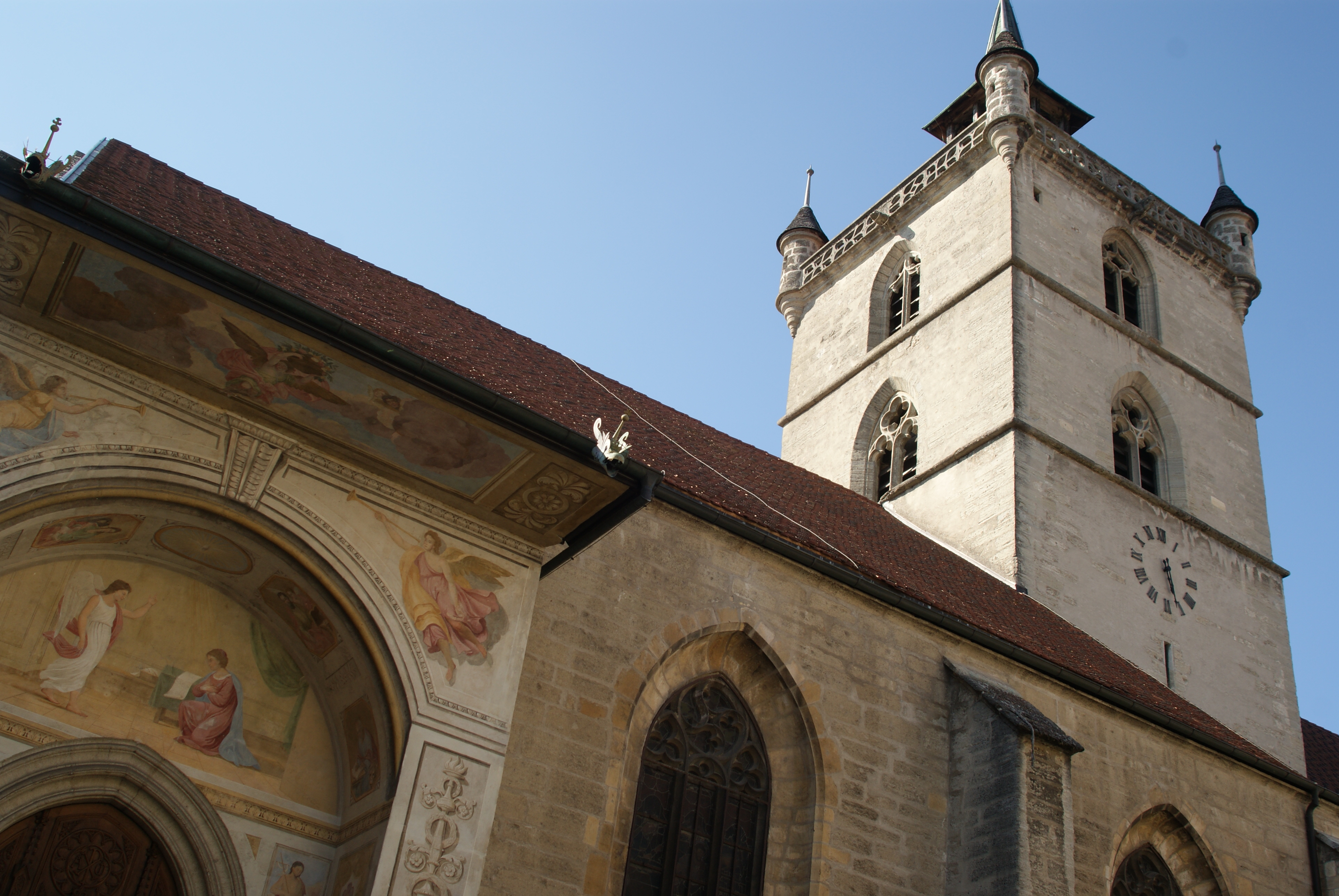 Saint-Laurent Church, Estavayer-le-Lac, Fribourg, Switzerland